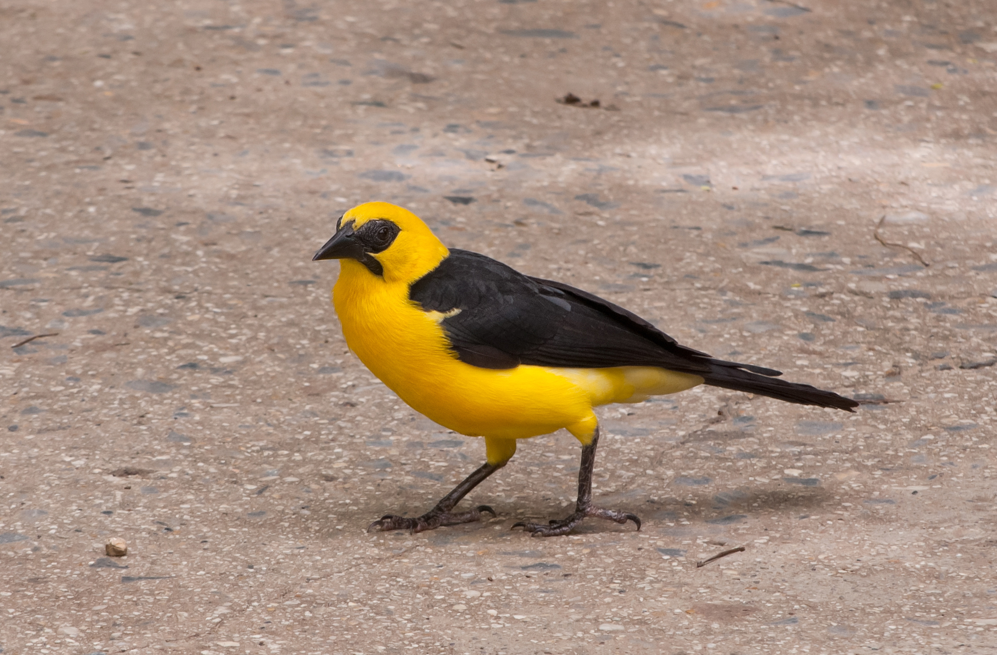 Oriole blackbird, Gymnomystax mexicanus, in Caracas Venezuela